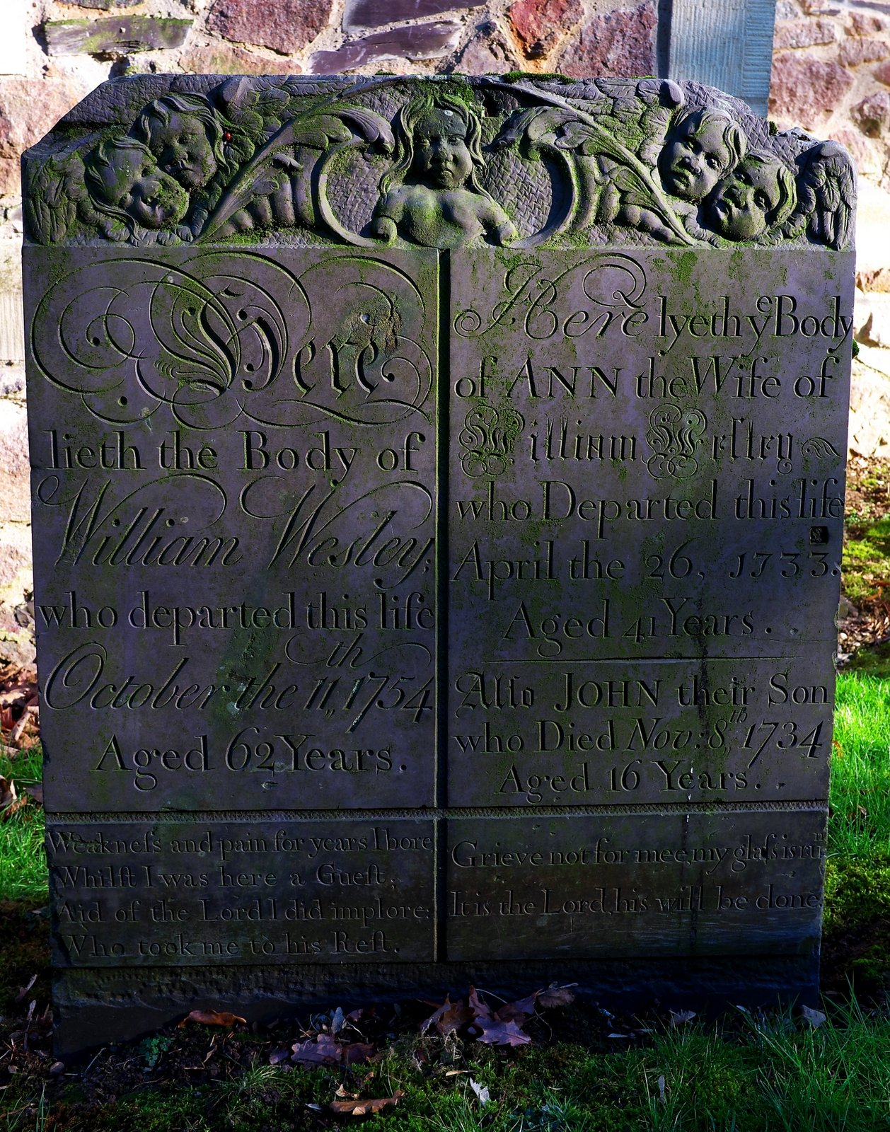 Swithland churchyard has a good collection of gravestones of slate from the nearby pits.This 18th century example displays fine calligraphy and cherub heads